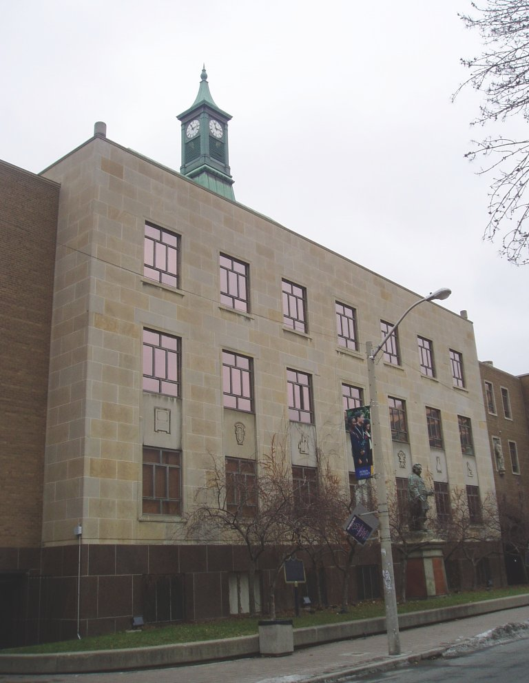 Kerr Hall